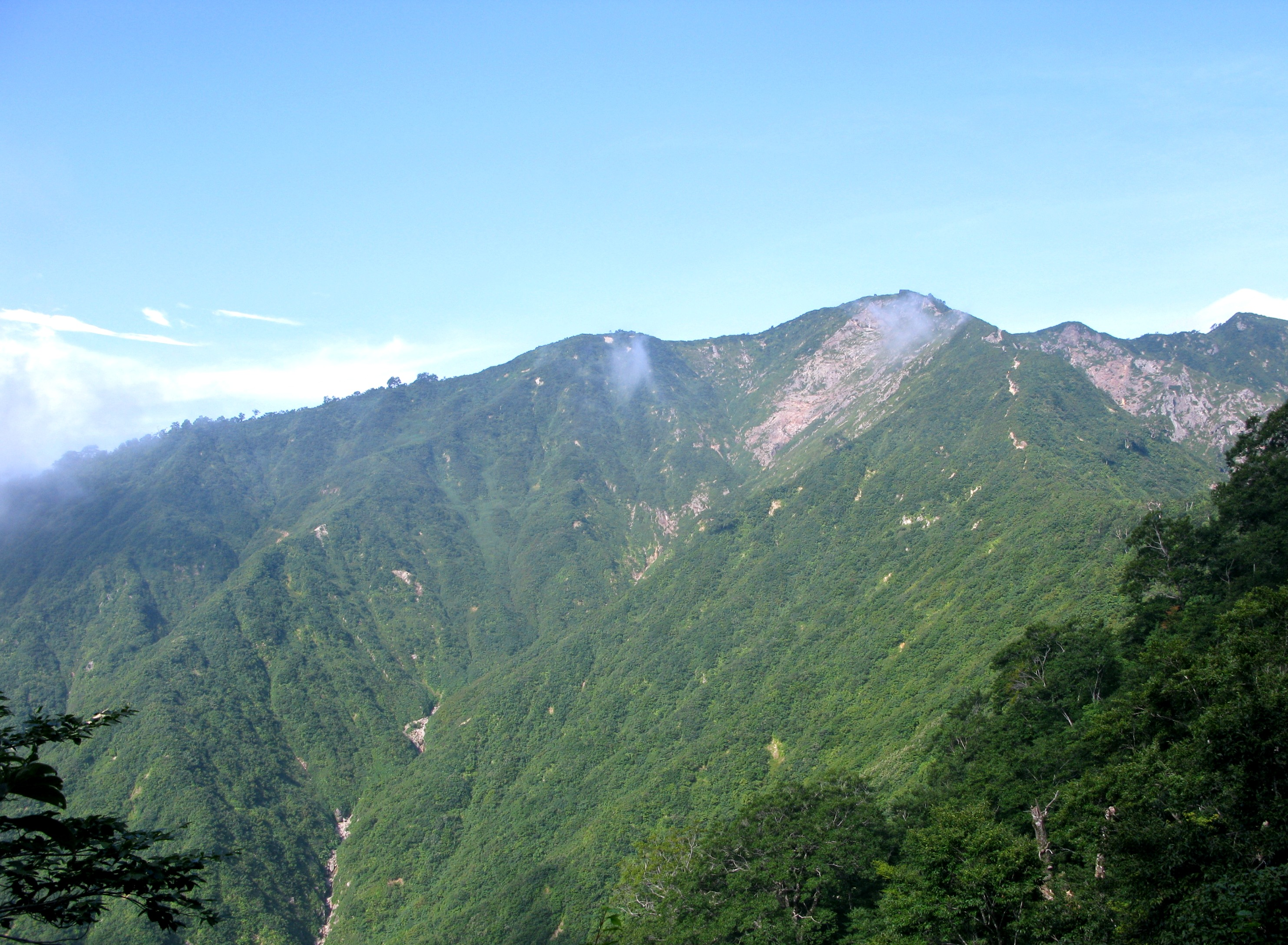 Mt. Mikuni-dake, Fukushima pref., Japan